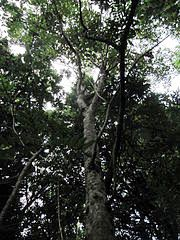 Vitex gaumeri (synonym Vitex pyramidata) is a species of plant in the Lamiaceae family. It is found in Belize, Guatemala, Honduras, Mexico, Costa Rica, El Salvador, Nicaragua, and Panama. Other common names include - Crucillo, Fiddlewood, Higuerillo, Lizardwood, Nichte, Vitex, Ya-axnic, Yashcabte, Yashnik, Yasnic, Yaxnic, Yaxnik, Yax-nik, Walking Lady Common uses for the wood of this tree include - Agricultural implements, Farm vehicles, Flooring, Furniture , General carpentry, Golf club heads, Millwork, Plywood, Sporting Goods, Tool handles, Vehicle parts, Veneer, Veneer: decorative. It was frustratingly difficult to get good photos of these trees. The leaves were mostly too high for me to reach, and the jungle was quite dark.